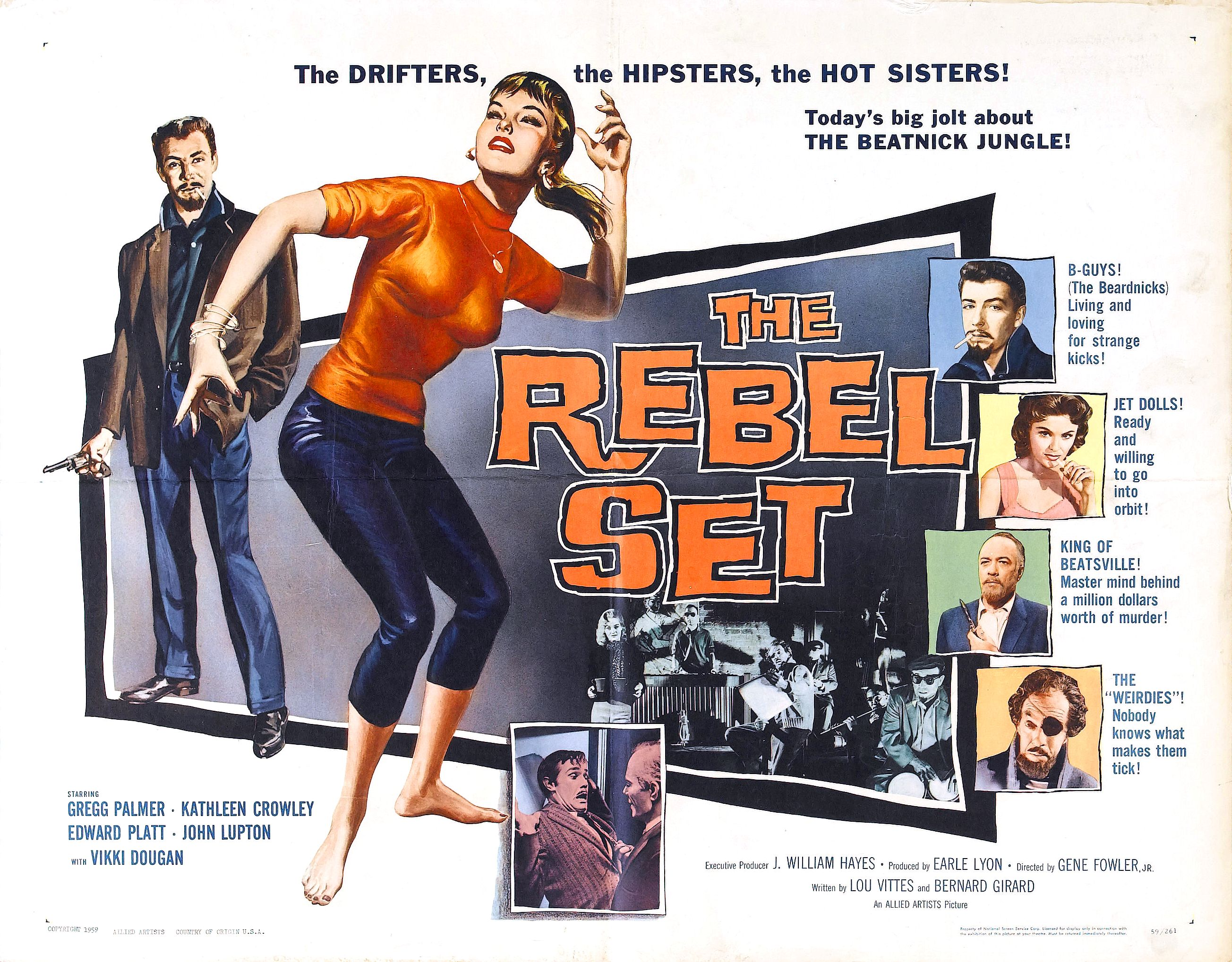 Promotional poster for The Rebel Set